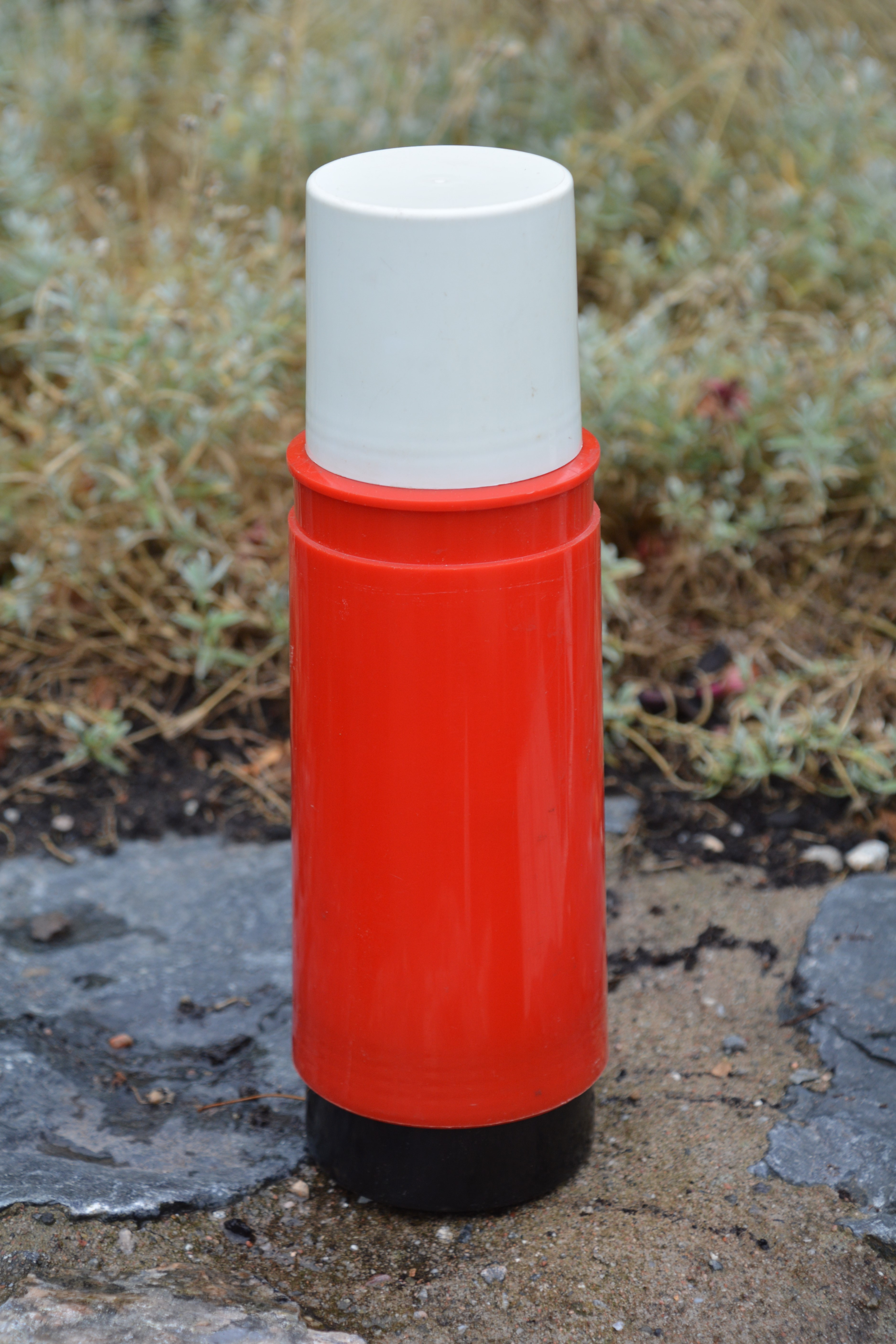 Thermos flask, manufactured 1960's by AB Termoverken, Jönköping, Sweden. Designed by Carl-Arne Breger, 4.5 dl.